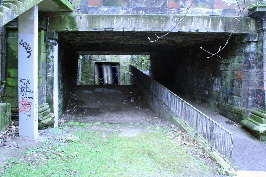 Looking under Gibson Street, the Glasgow Central Railway tunnel from Kelvinbridge railway station to Stobcross railway station. In the foreground is the bank of earth place following the flooding of the River Kelvin in December 1994 which resulted in water flowing through this tunnel to Glasgow Central railway station.